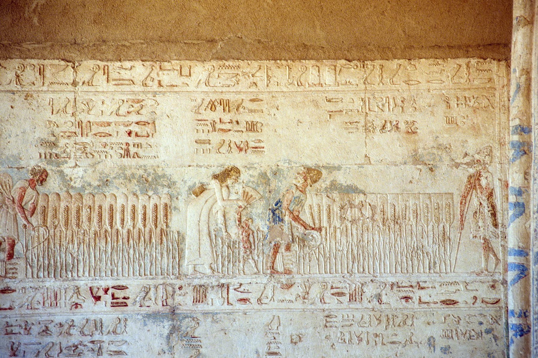 Harvest scene in the pronaos of the tomb of Petosiris, Tuna el-Gebel, Egypt